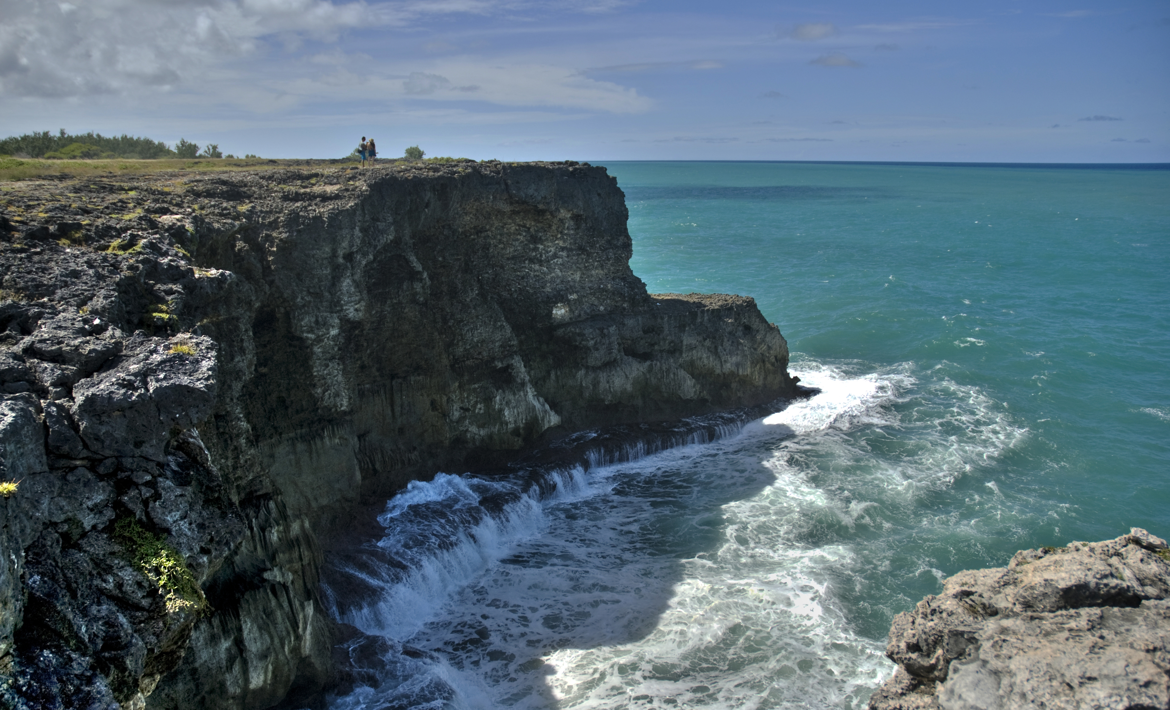 Walking to the cliffs, Barbados